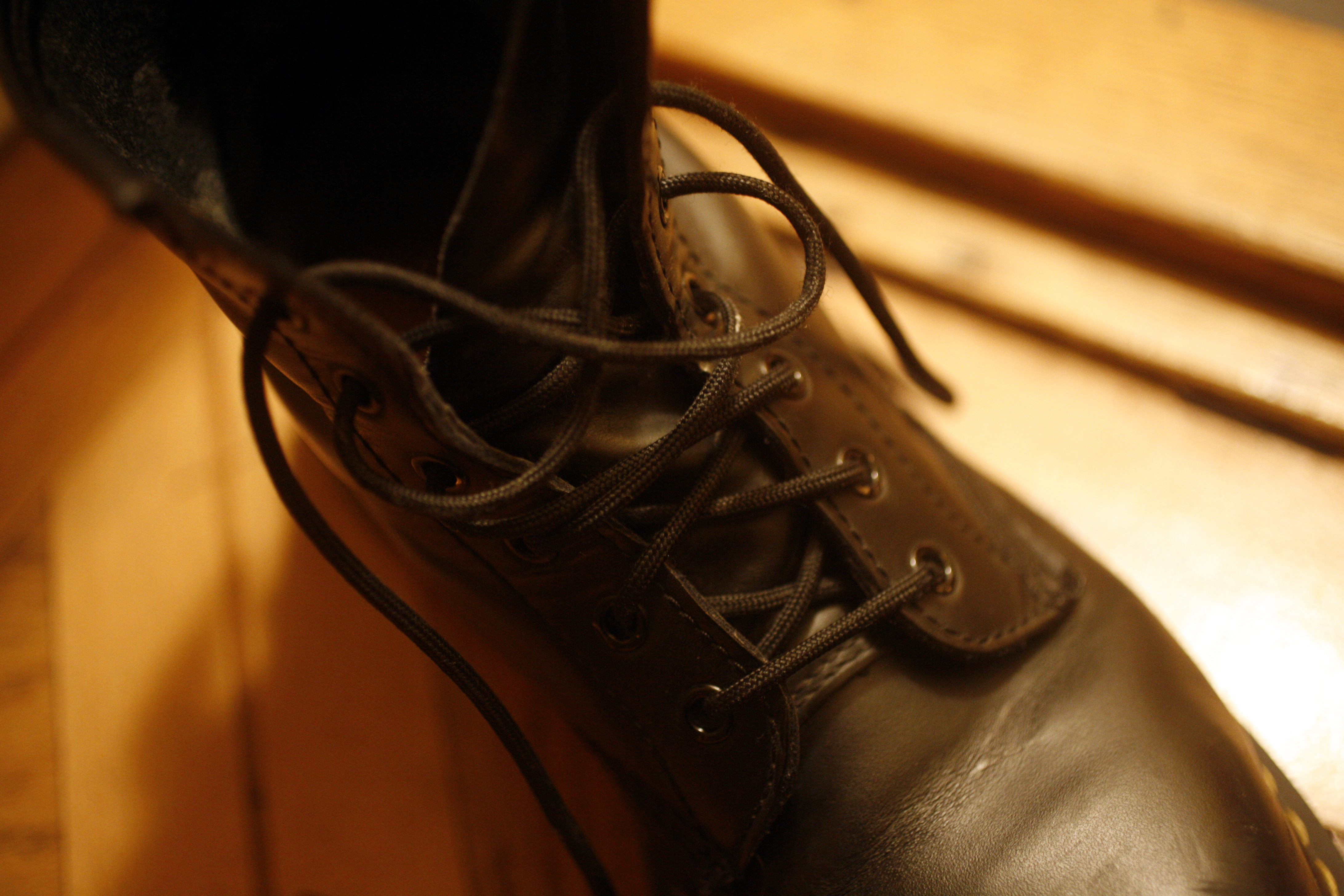 Shoelaces